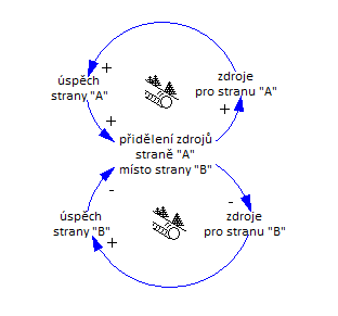 Success to the successful